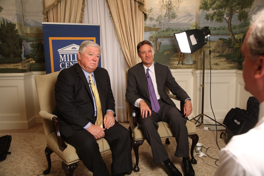 Milstein Conference, Miller Center, Washington, DC 10/22/13